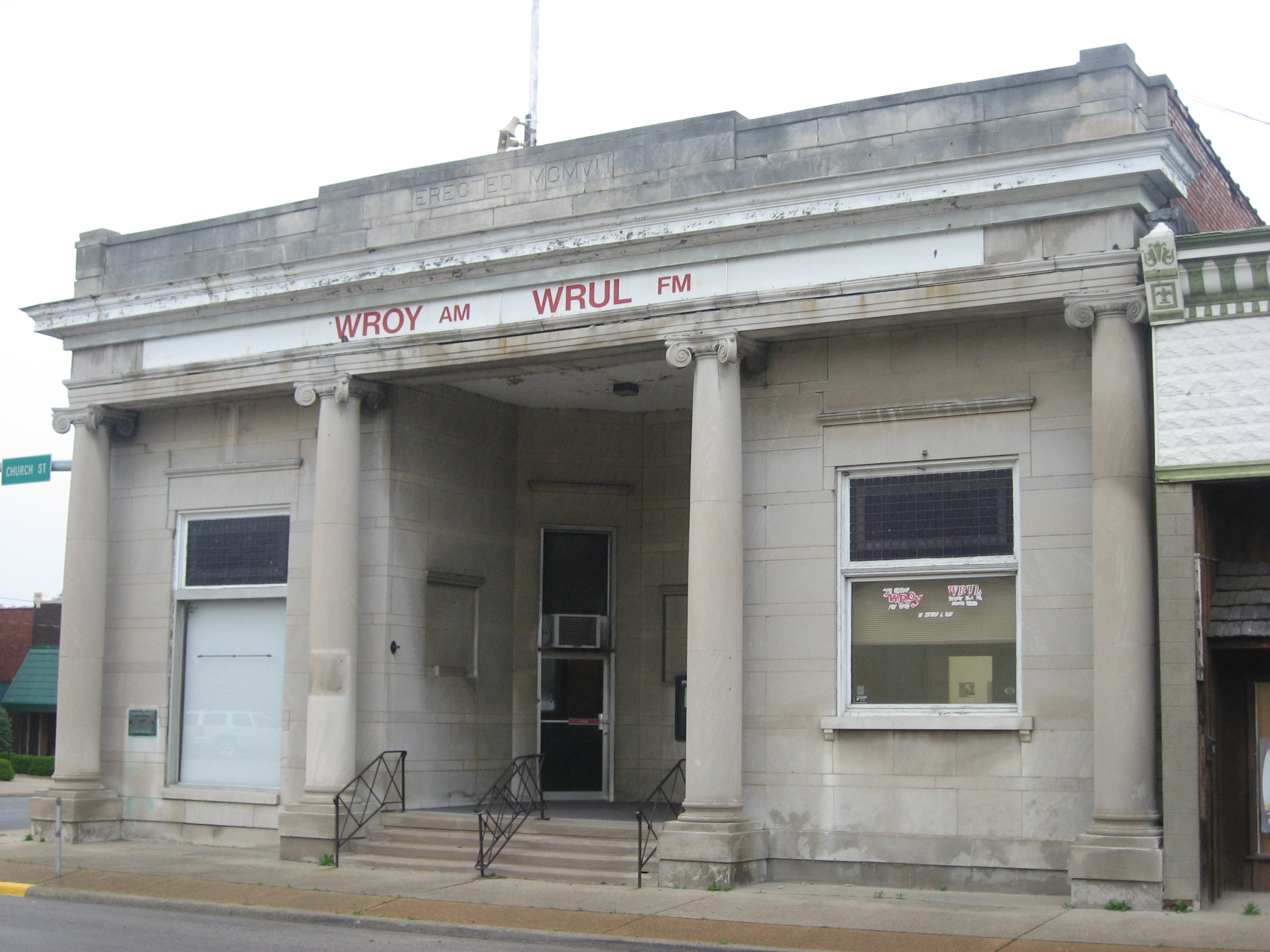 Front of the former National Bank of Carmi (now WROY/WRUL radio headquarters), located on the western corner of the junction of Main and Church Streets in Carmi, Illinois, United States.